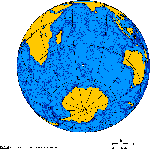 Orthographic projection centred over Kerguelen Island